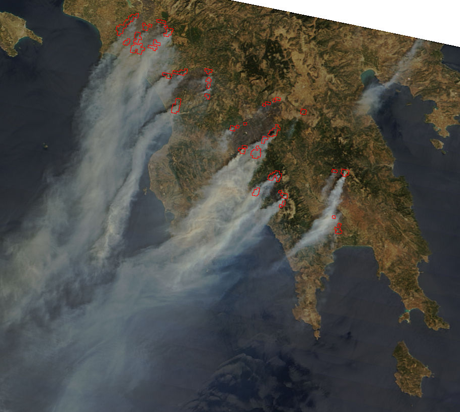 2007 fires in Greece